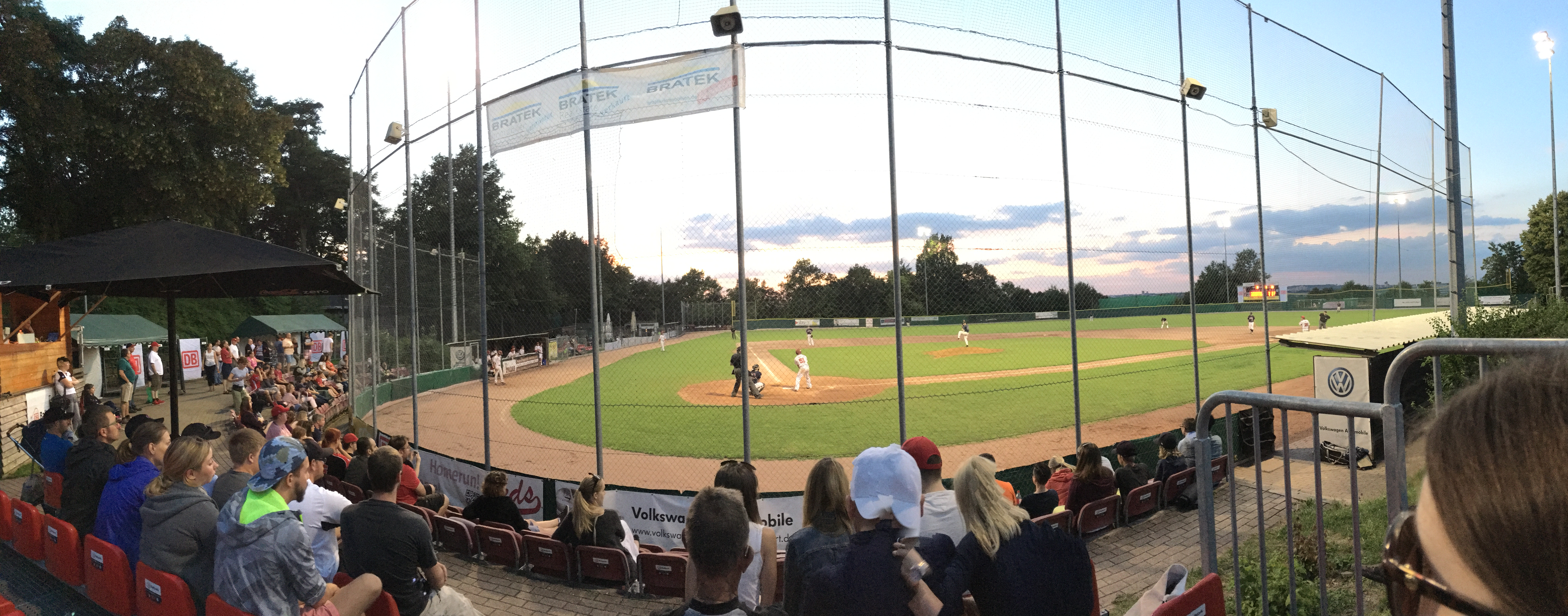 Baseball ballpark, Stuttgart, Germany